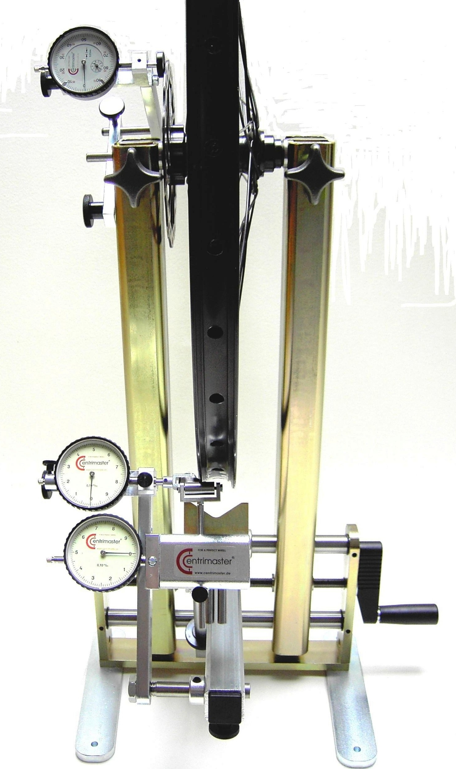 Measuring instrument A measuring instrument attached to the center of the bracket can be used to easily and automatically true the rim without calculations. Throughout the truing process, a dynamic display positioned on the rim indicates the position of the rim in relation to the hub and the radial runout.